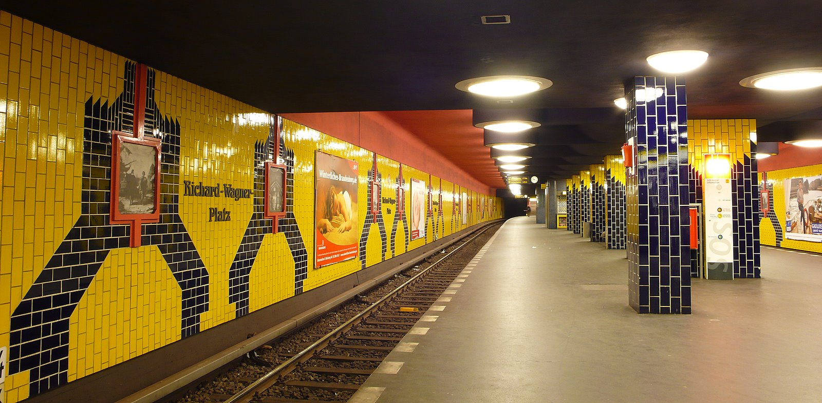 RichardWagnerplatz subway Berlin